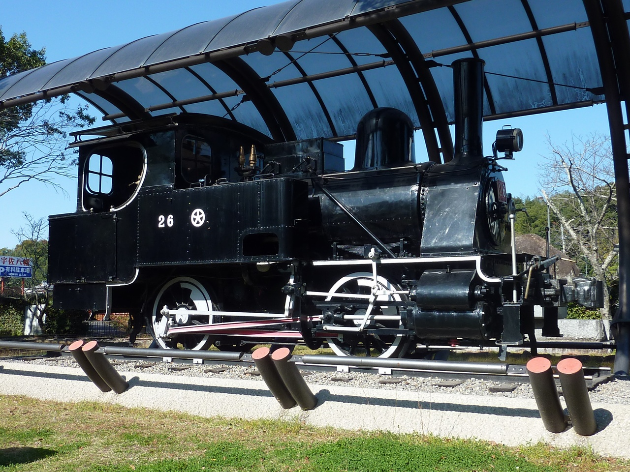 Oita Kotsu - Usa Sangu Line 26th SL